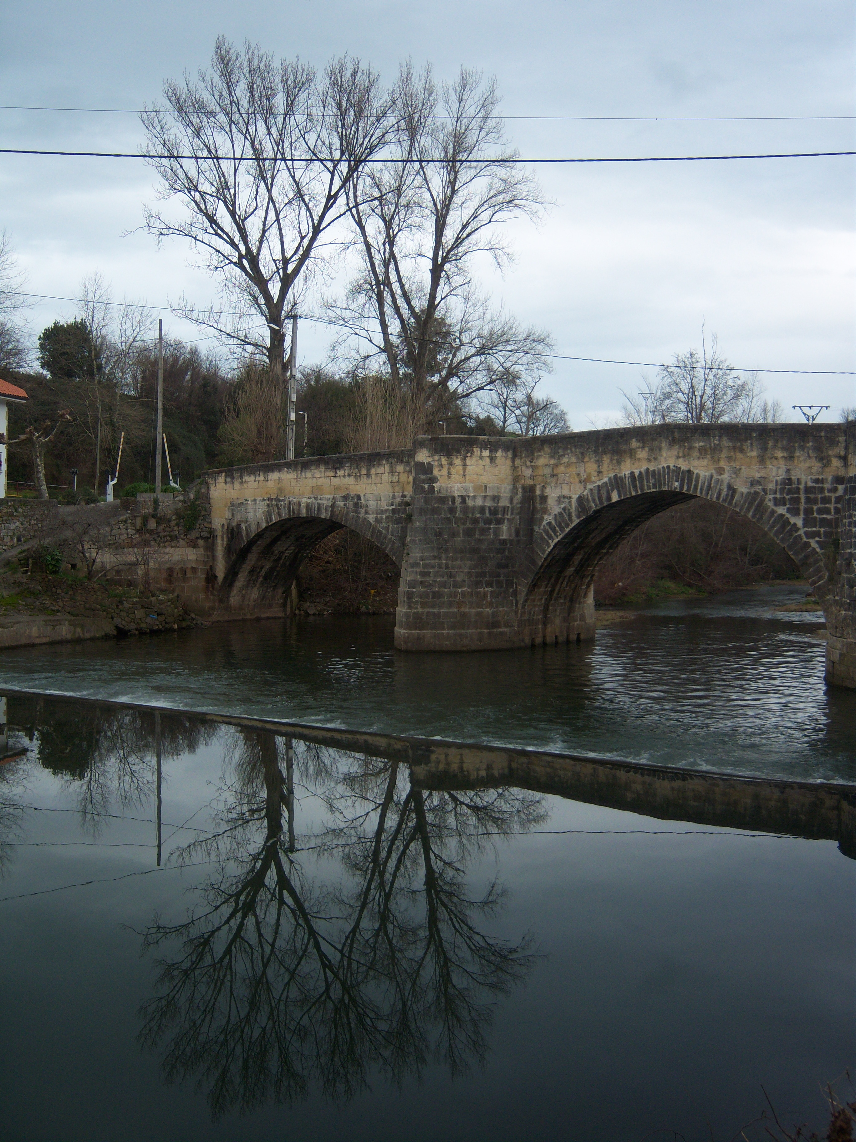 Miera river on its way through Puente Agüero, in Entrambasaguas (Cantabria, Spain)